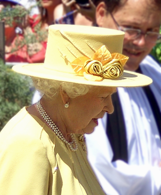 At St John's Church, Reid, Australian Capital Territory, on 23 October 2011, HRH Queen Elizabeth II attended the 11.15am service and were greeted by well-wishers. The Queen is seen walking from the church's entrance.